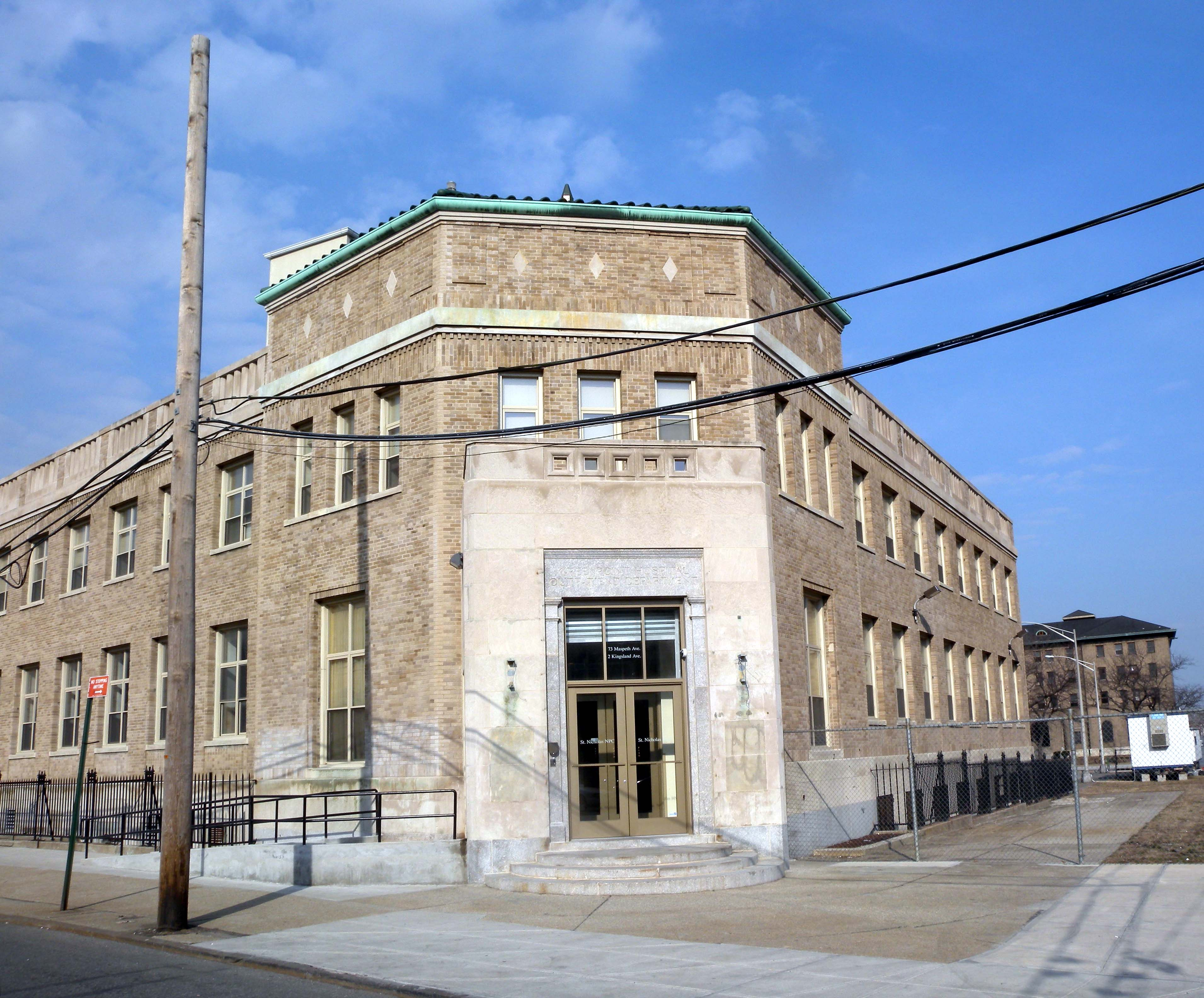 Looking northeast at former Greenpoint Hospital from Kingsland Avenue, a few meters north of Maspeth Avenue, on a sunny afternoon.